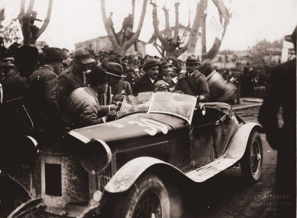 Entry #30 and WINNER of the Mille Miglia race in Italia on 1 Aprile 1928 was an Alfa Romeo 6C 1500 Zagato Sport Spider (SS) with compressor, driven by Giuseppe Campari and mechanic Giulio Ramponi.[1] There were a lot of 6C 1500 in this race.[2]